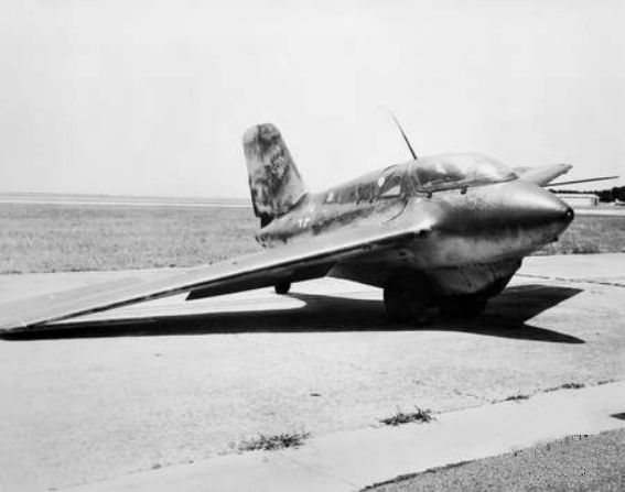 A Messerschmitt Me 163B Komet, Werknummer (c/n) 191907, at Point Cook, Melbourne (Australia), circa in 1950. It is thought that Wk.Nr. 191907 was built in early 1945 and allocated to II Gruppe, Jagdgeschwader 400 (2nd Group, 400th Fighter Wing), at Husum, Germany. As rocket fuel had all but run out in early 1945 Wk.Nr. 191907 probably never flew and was not given unit markings. The aircraft was captured by the British, taken to the UK for evaluation and presented to the Australian government in 1946. This aircraft is today in the collection of the Australian War Memorial.